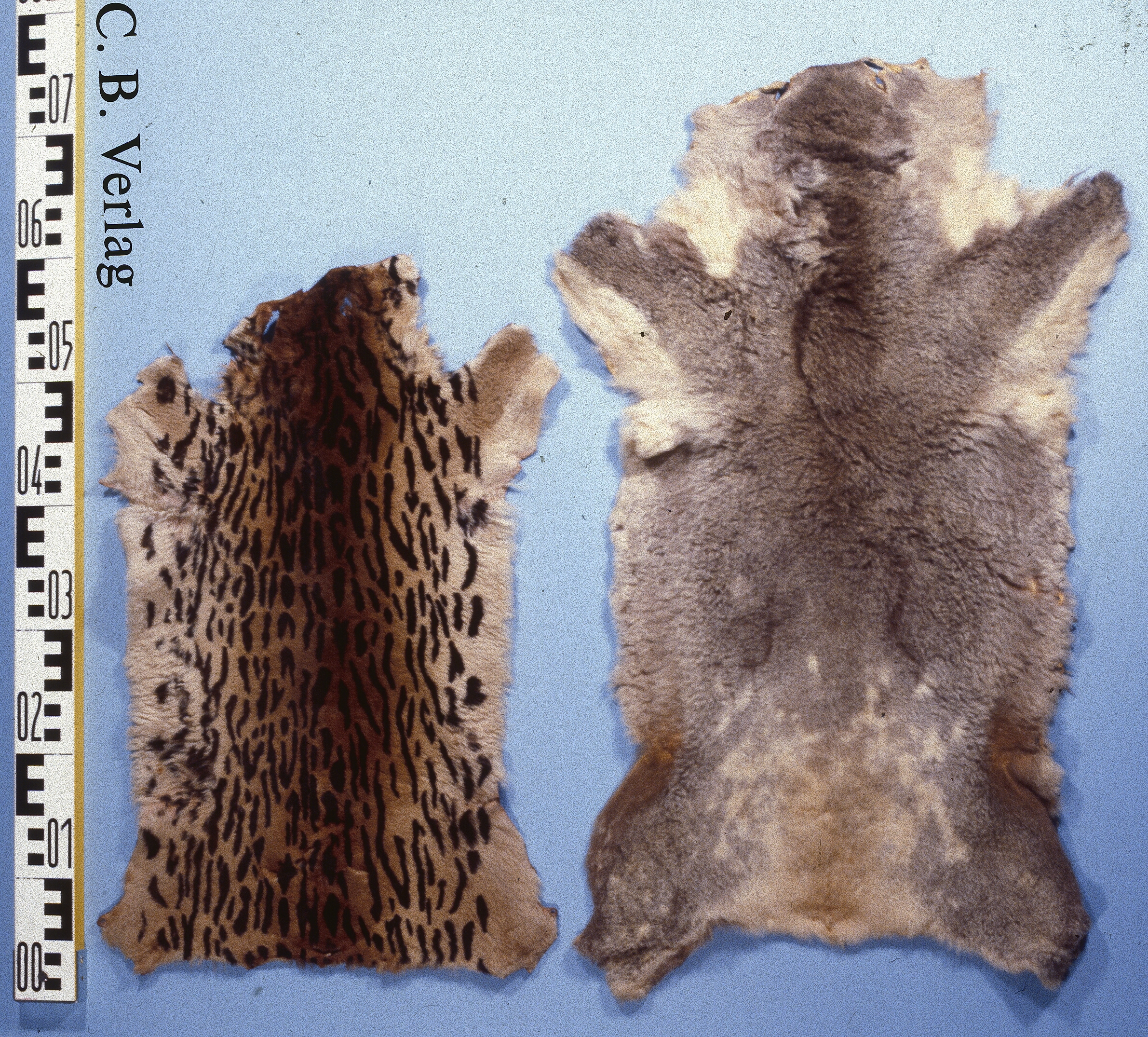 Koala fur skins (Phascolarctos cinereus). Fur skin collection, Bundes-Pelzfachschule, Frankfurt/Main, Germany